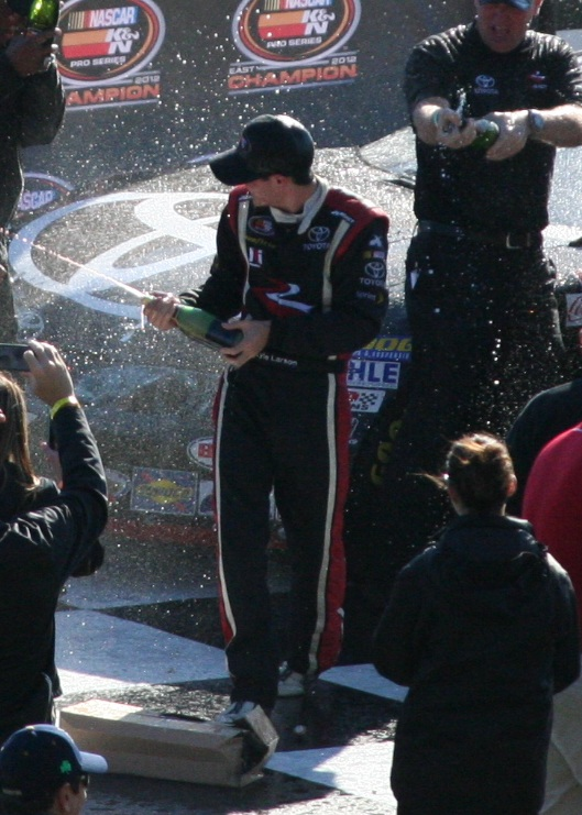 Kyle Larson celebrates after winning the 2012 NASCAR K&N Pro Series East championship